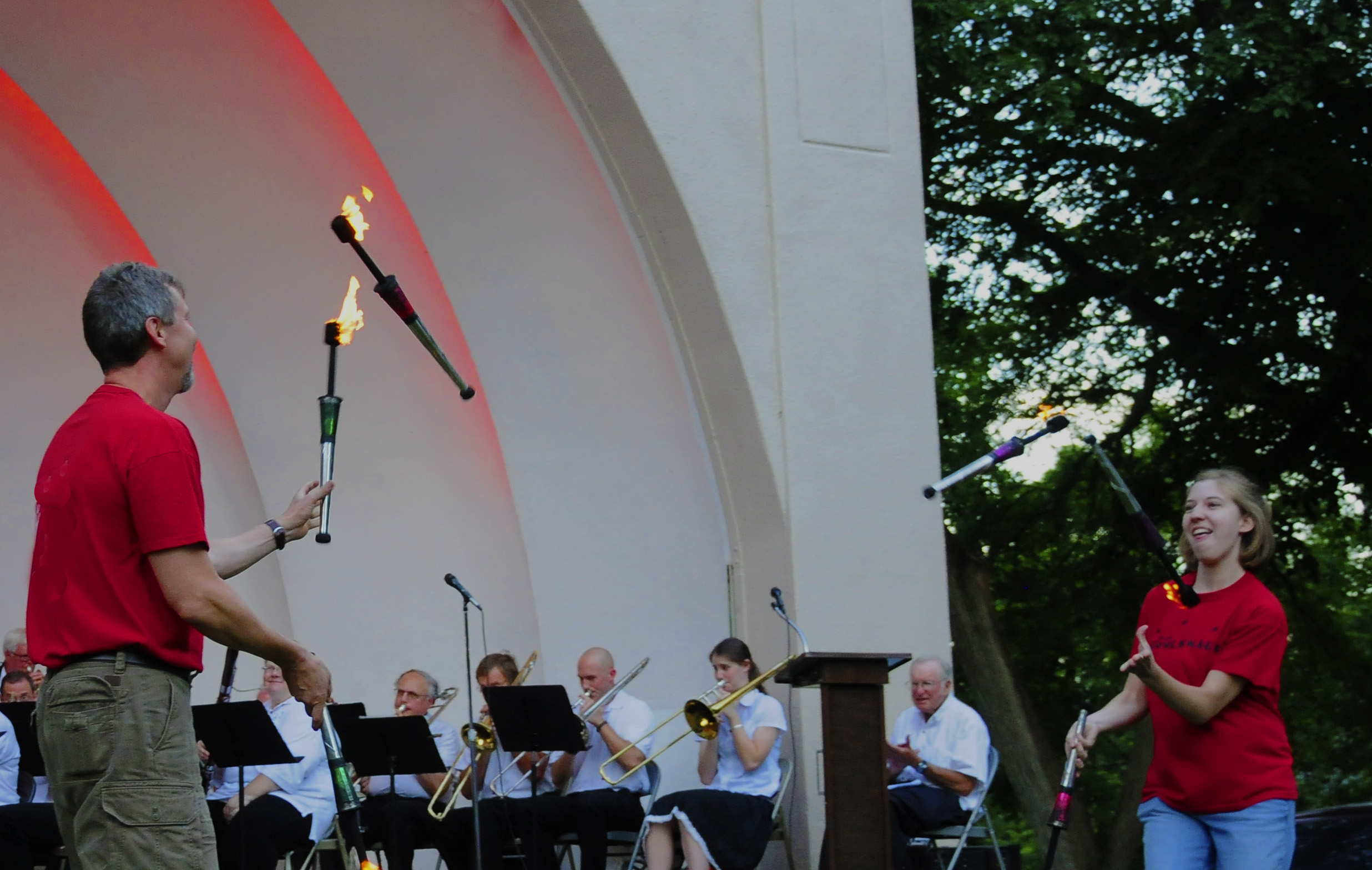 Juggling to the music of the Eau Claire Municipal Band